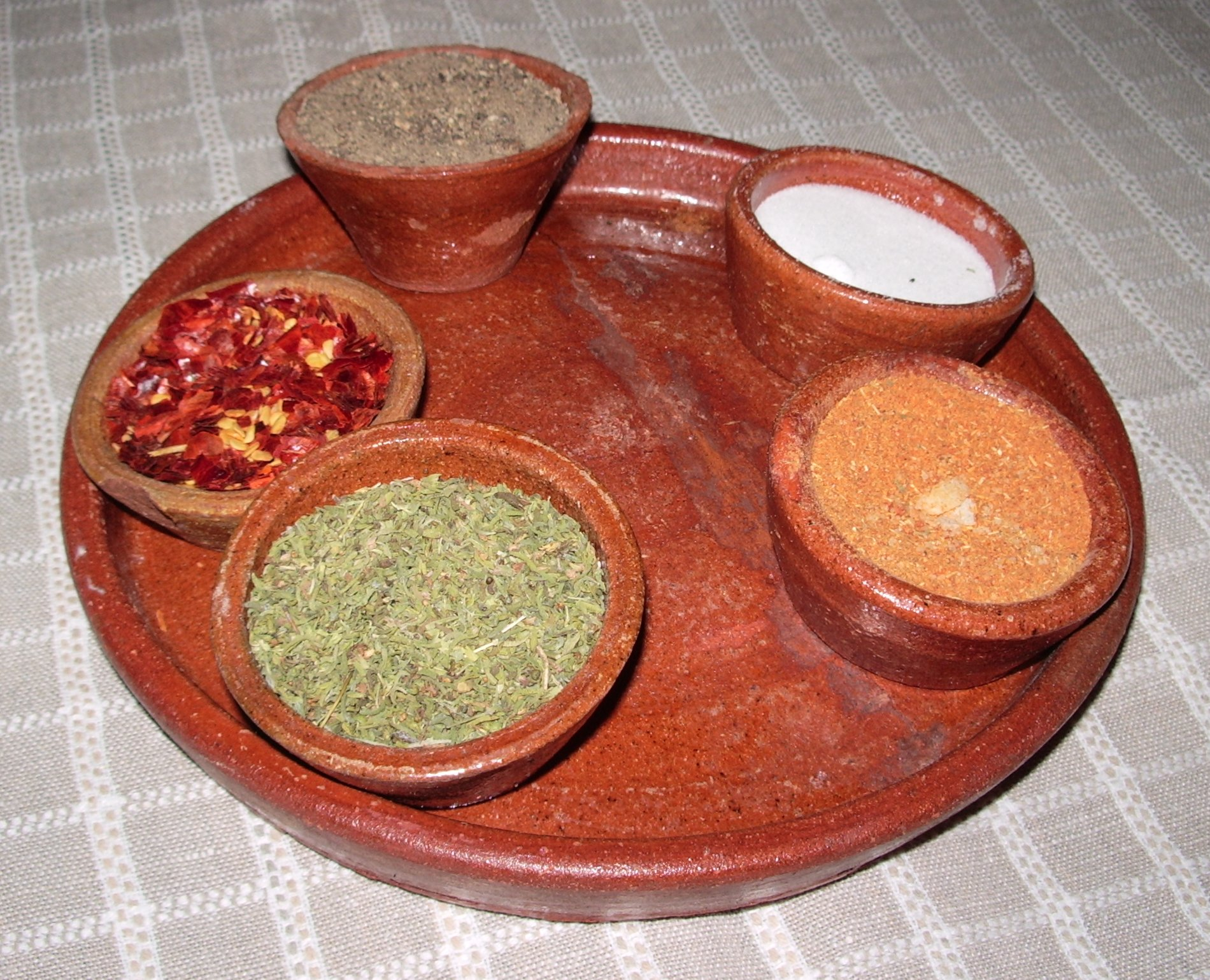 A set of spices typical for Bulgarian cuisine. Shot taken during the first meeting of the Bulgarian-language Wikipedia.